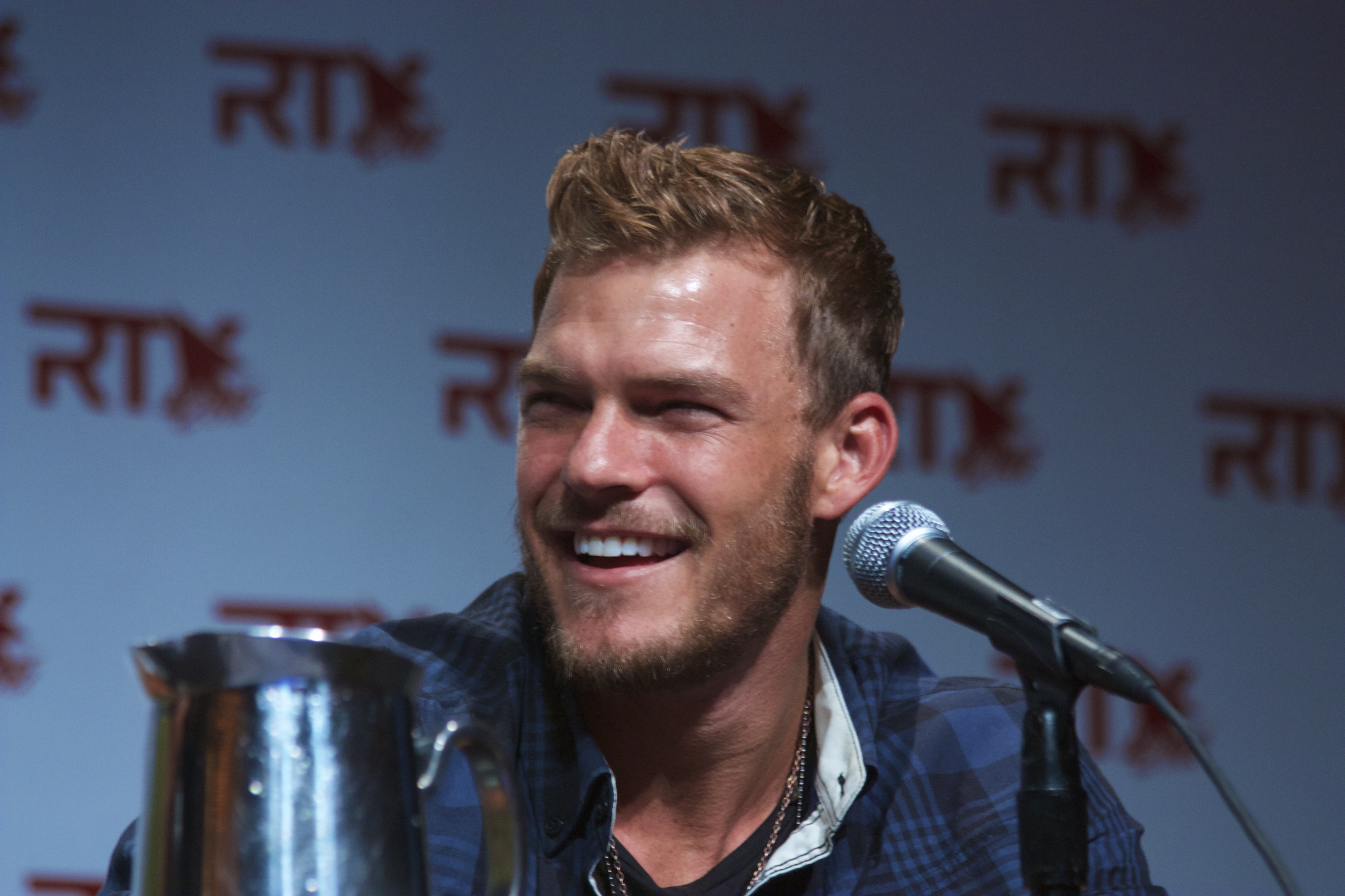 Alan Ritchson